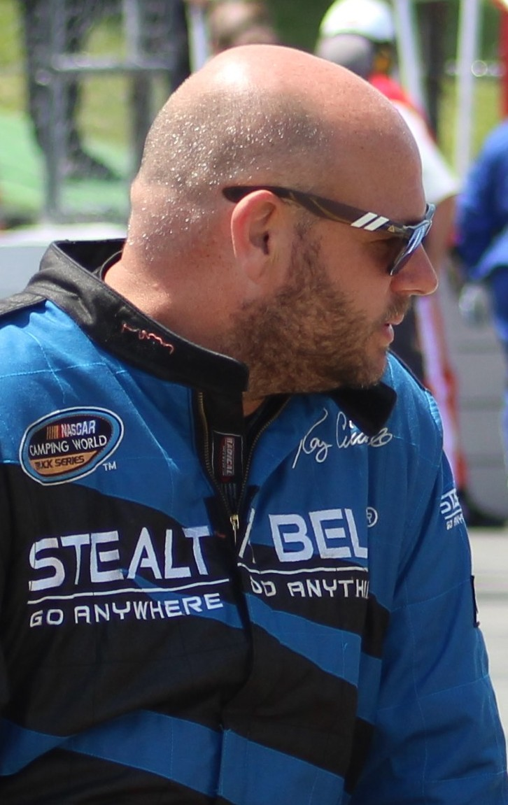 Drivers from the NASCAR Camping World Truck Series at Pocono Raceway in 2018. From left to right: Wendell Chavous, Ray Ciccarelli, Todd Peck, Camden Murphy, Norm Benning.